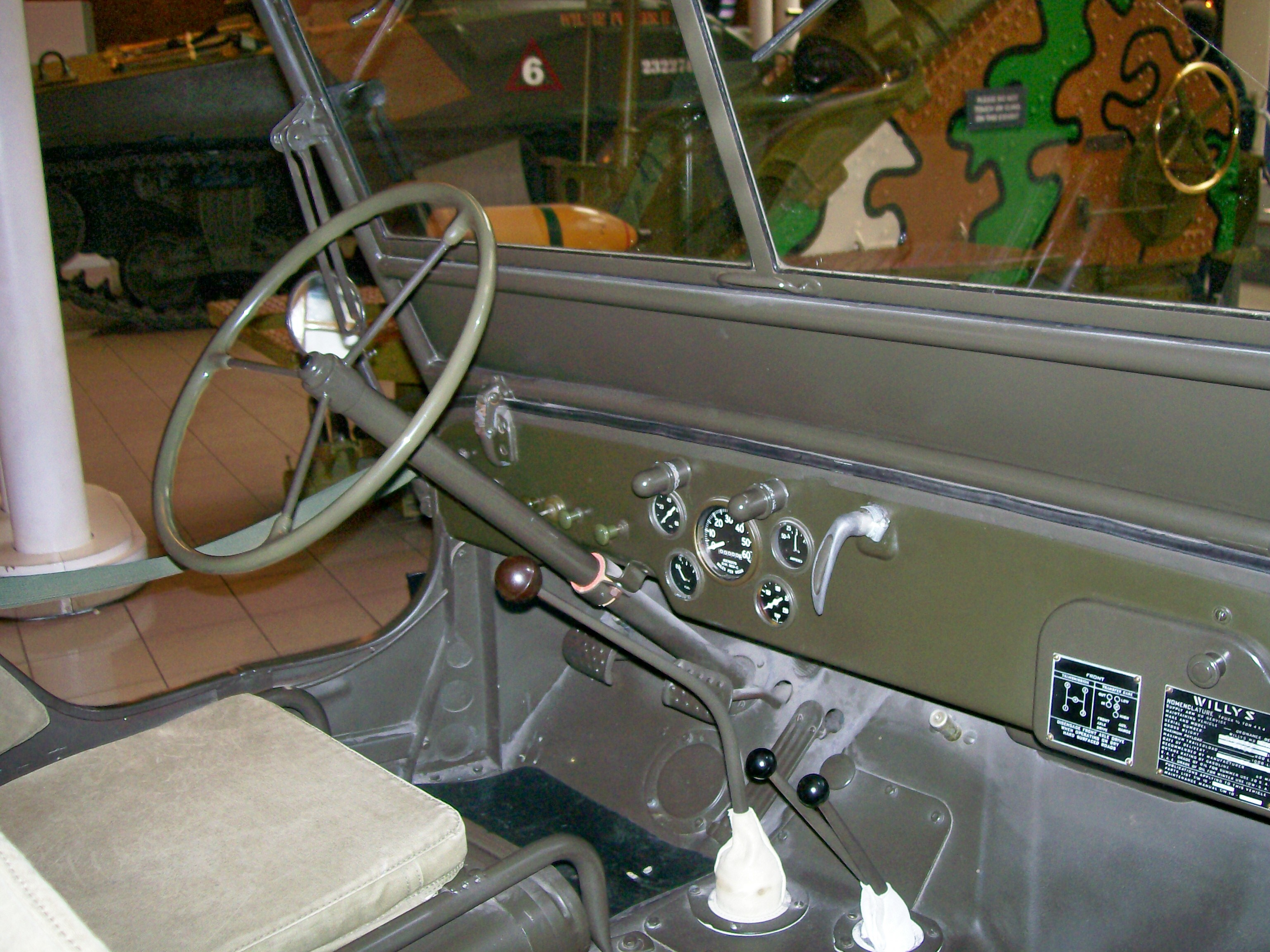 Dashboard of WWII Jeep Imperial War Museum, London March 2007